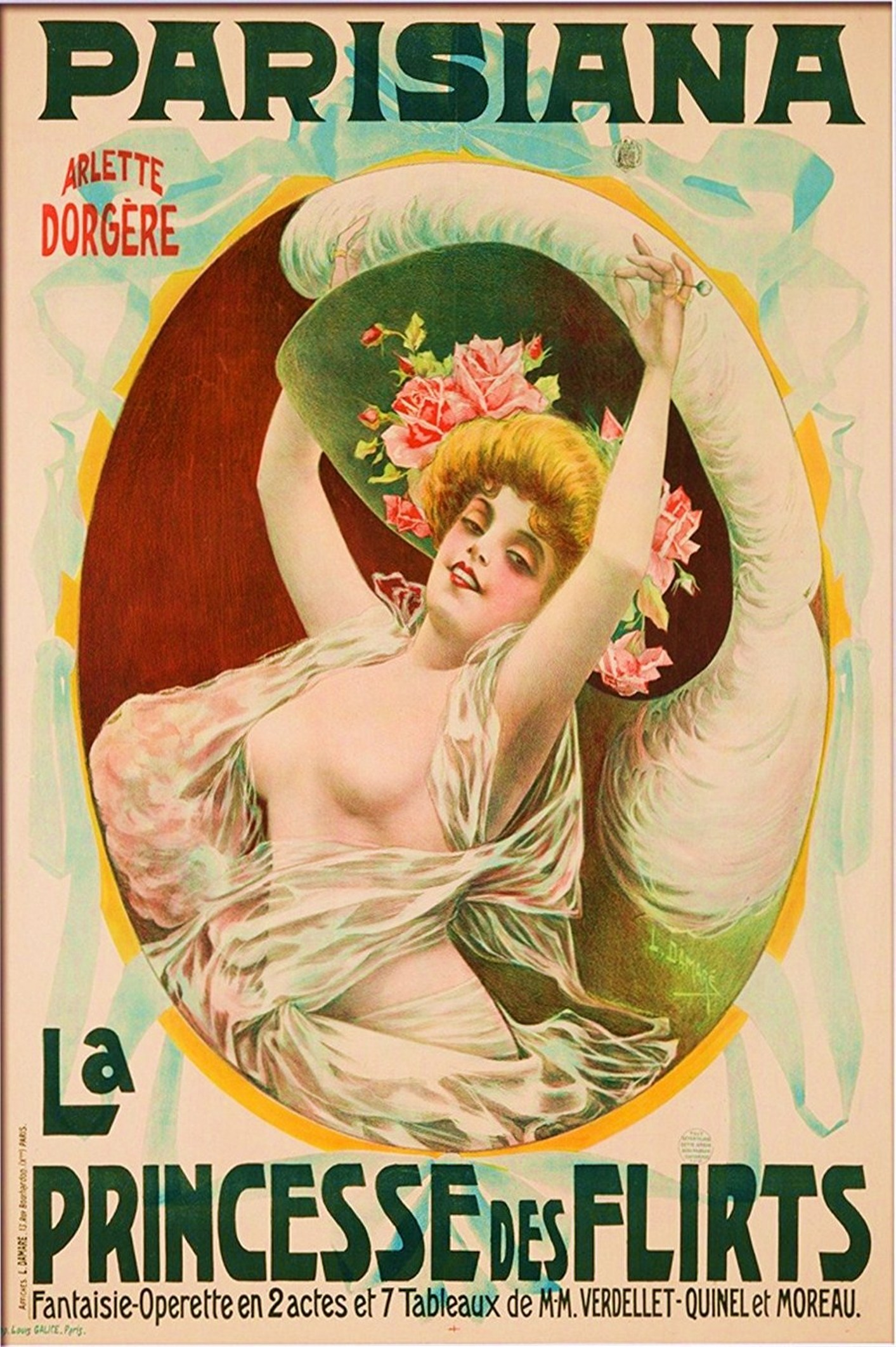 Arlette Dorgère plays the leading role in, The Princess of Flirts, at the Parisiana cabaret in Paris in 1906, a fantasy-operetta at great show of Verdellet, Ouinel and Henri Moreau.